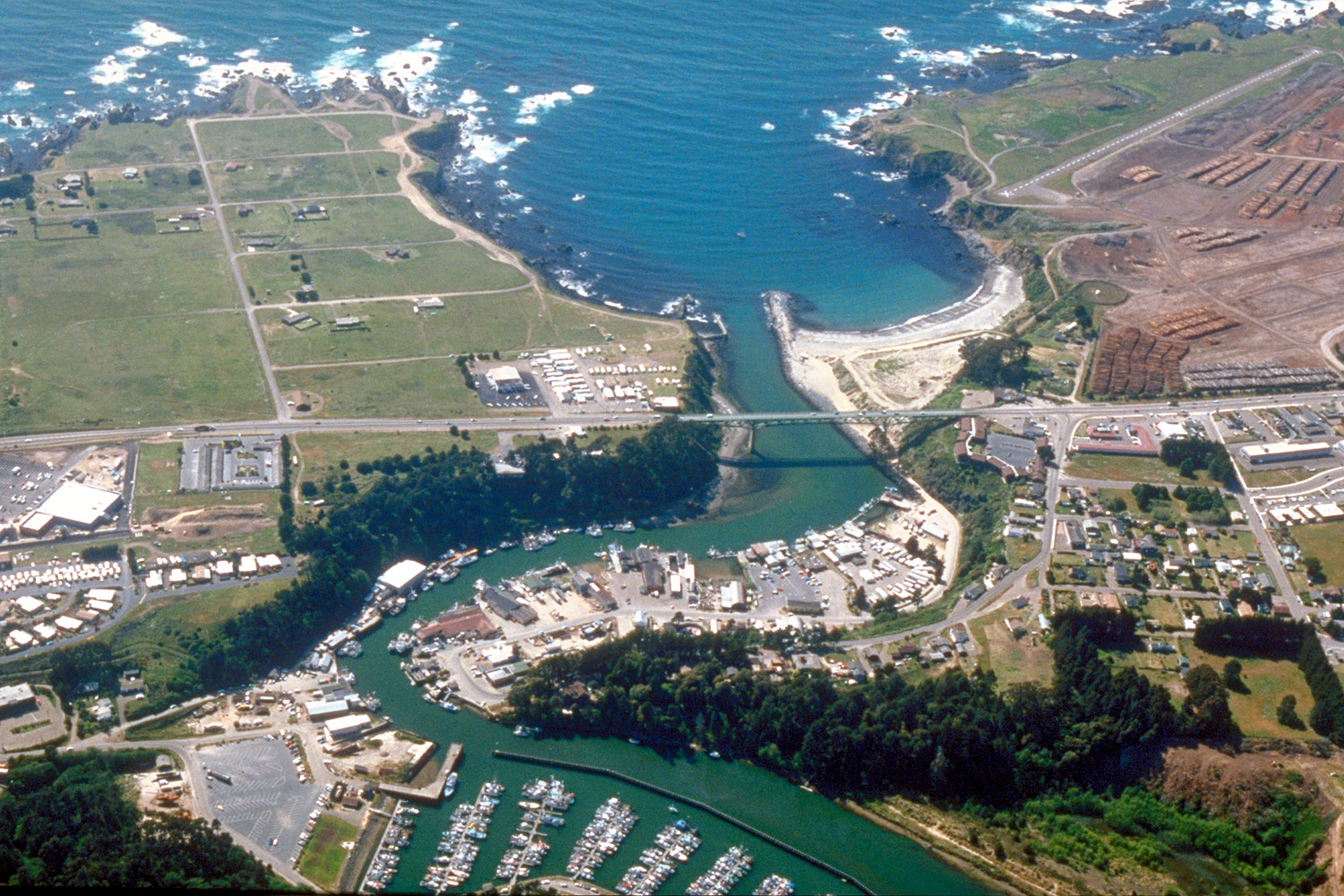 Aerial view of the mouth of the Noyo River on the Pacific Ocean at Fort Bragg, Mendocino County, California, USA. California State Route 1 (Main Street in Fort Bragg) crosses the river at the outlet. View is to the west. Coordinates: 39°25′38.37″N 123°48′24.63″W / 39.427325°N 123.8068417°W